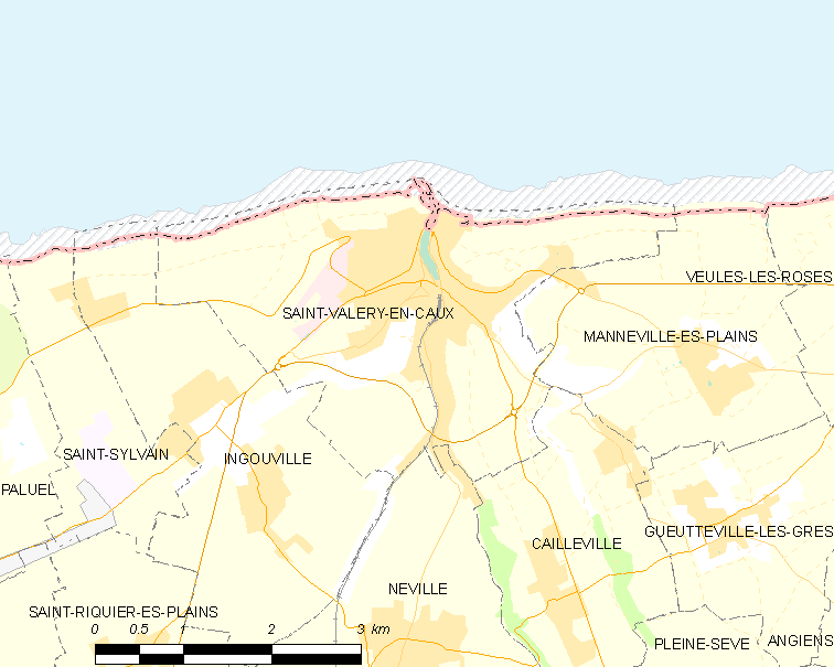 Map of French municipality Saint-Valery-en-Caux